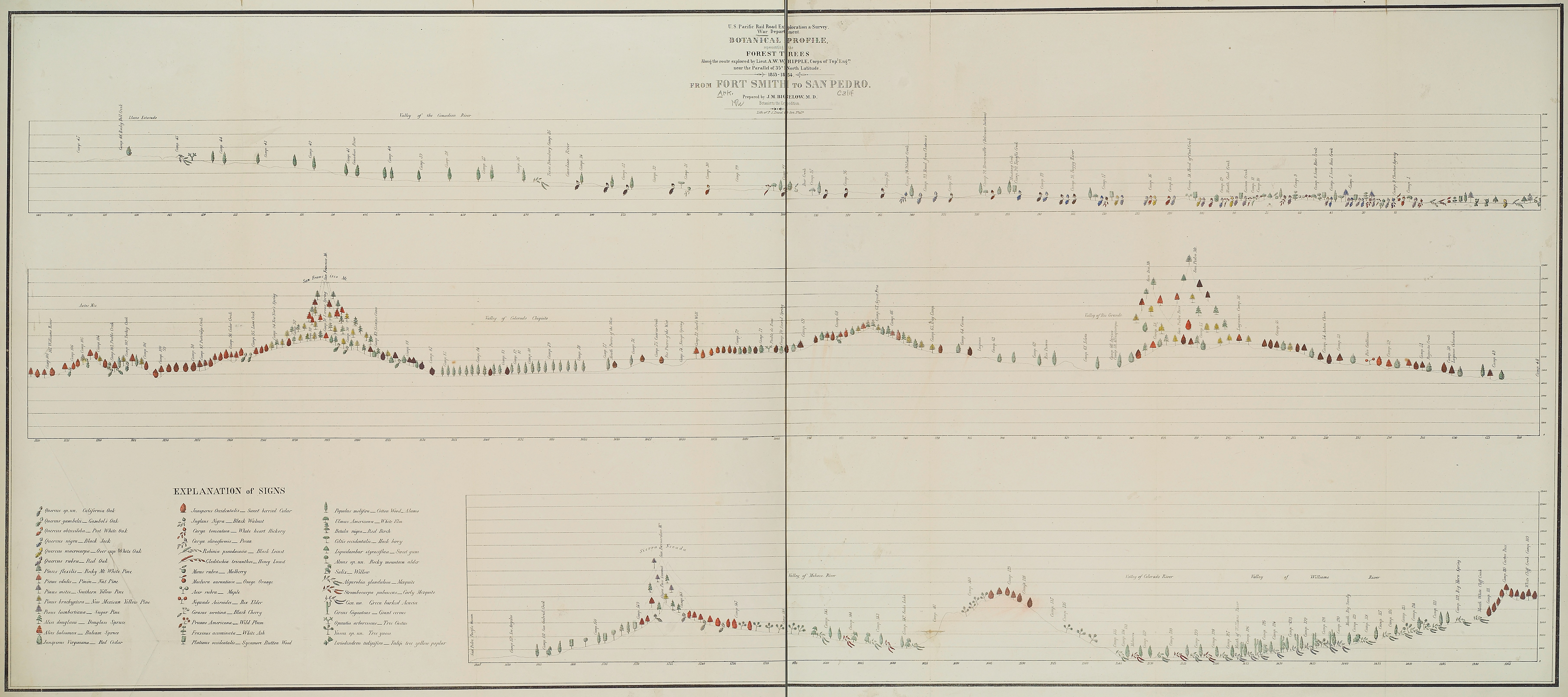 prepared by J.M. Bigelow, M.D., botanist to the expedition....